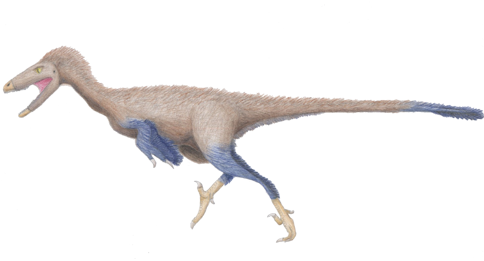 Life restoration of Stenonychosaurus inequalis